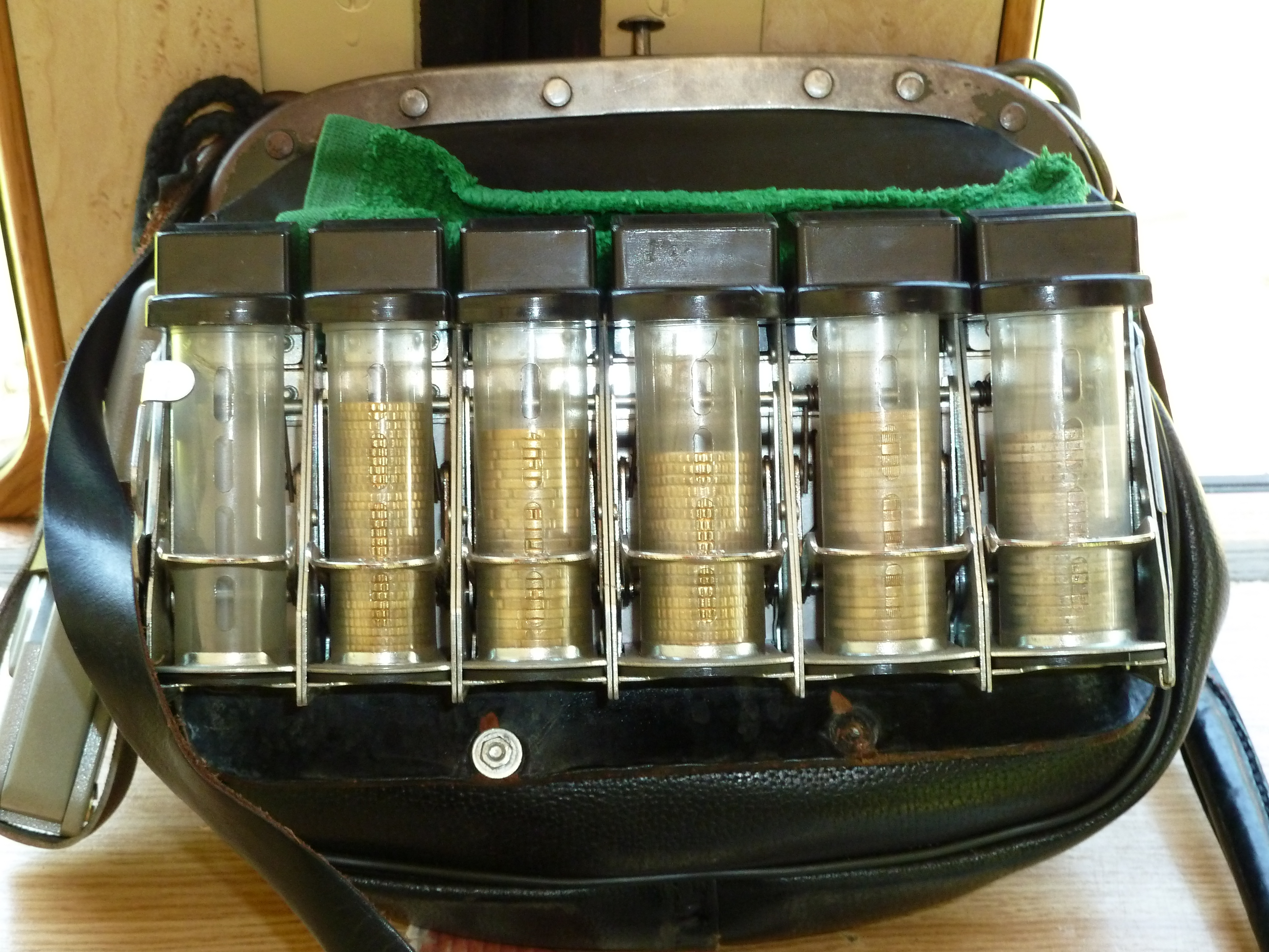 Conductor´s bag with a coin dispenser, gallop-dispenser in colloquial language